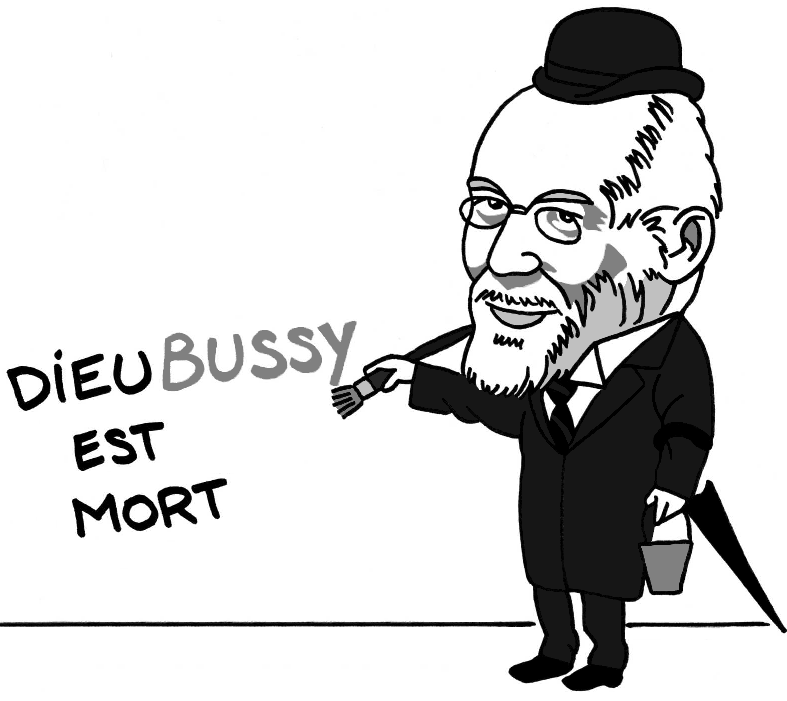 Full-length caricature of Mister Erik Satie adds Bussy after God on a graffiti declaring "God is dead"